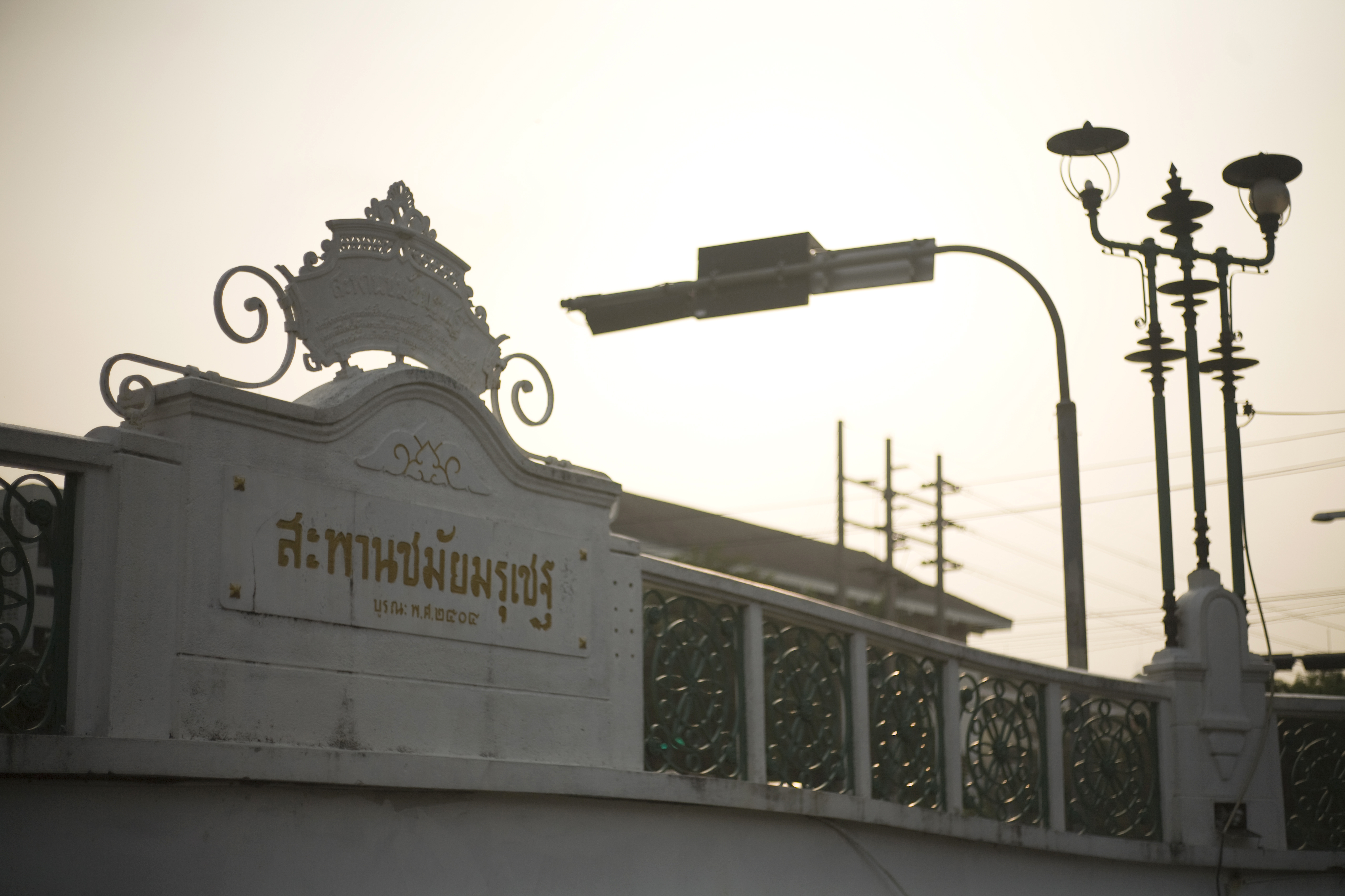 Chamaimaruchet bridge, Phitsanulok Road crossing Khlong Prem Prachakon - near Government House. (Photo by พีรพัฒน์ วิมลรังครัตน์)